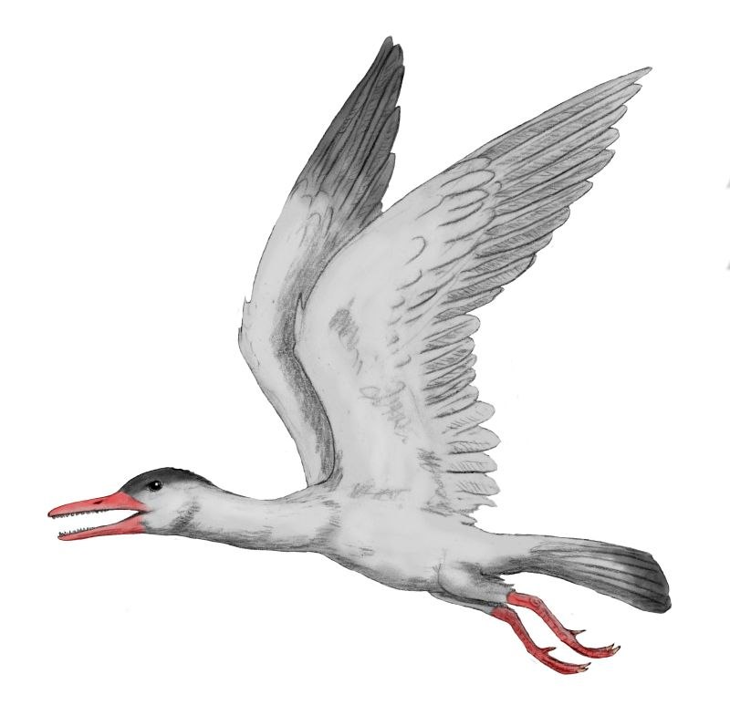 Ichthyornis dispar, a bird from the Late Cretaceous of North America, pencil drawing, digital coloring